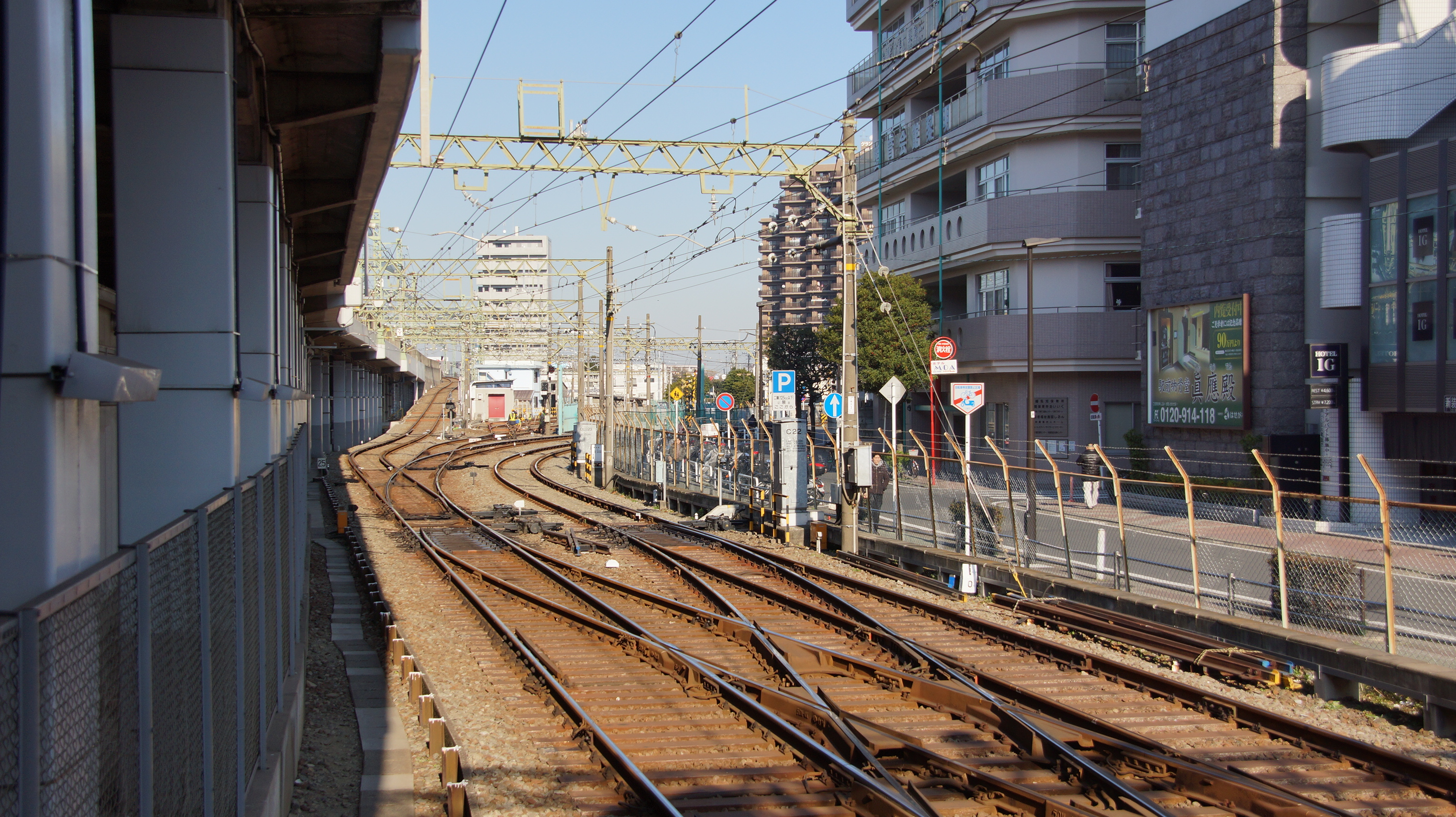 The view from the north end of the Daishi Line tracks at Keikyu Kawasaki Station, with the Daishi Line curving off to the right and the link to the elevated Keikyu Main Line to the left